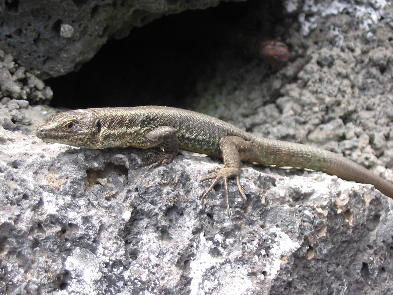 Teira dugesii at a dry stone wall near Urzeline, Sao Jorge, Azores